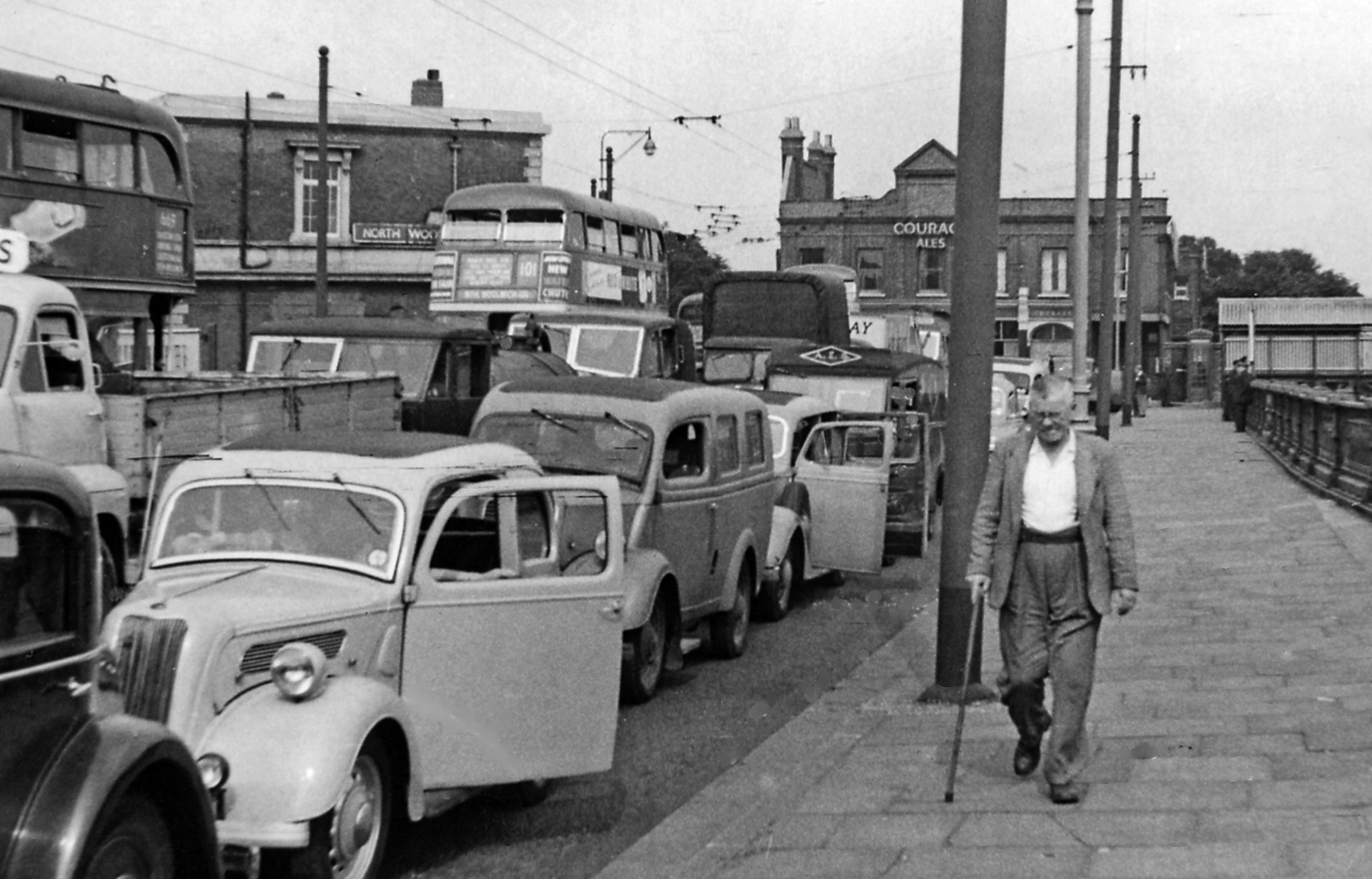 Traffic queue for the Ferry at North Woolwich in a heat-wave, 1955. Eastward view of traffic queueing for the Woolwich Free Ferry on Ferry Road. North Woolwich station (terminus of the line from Stratford) is ahead. The trolleybus off to the left is on Route 669 from Stratford Broadway; the bus is on Route 101 from Wanstead. Note the doors opened on some cars for a breath of fresh air - no air-conditioning in those days.